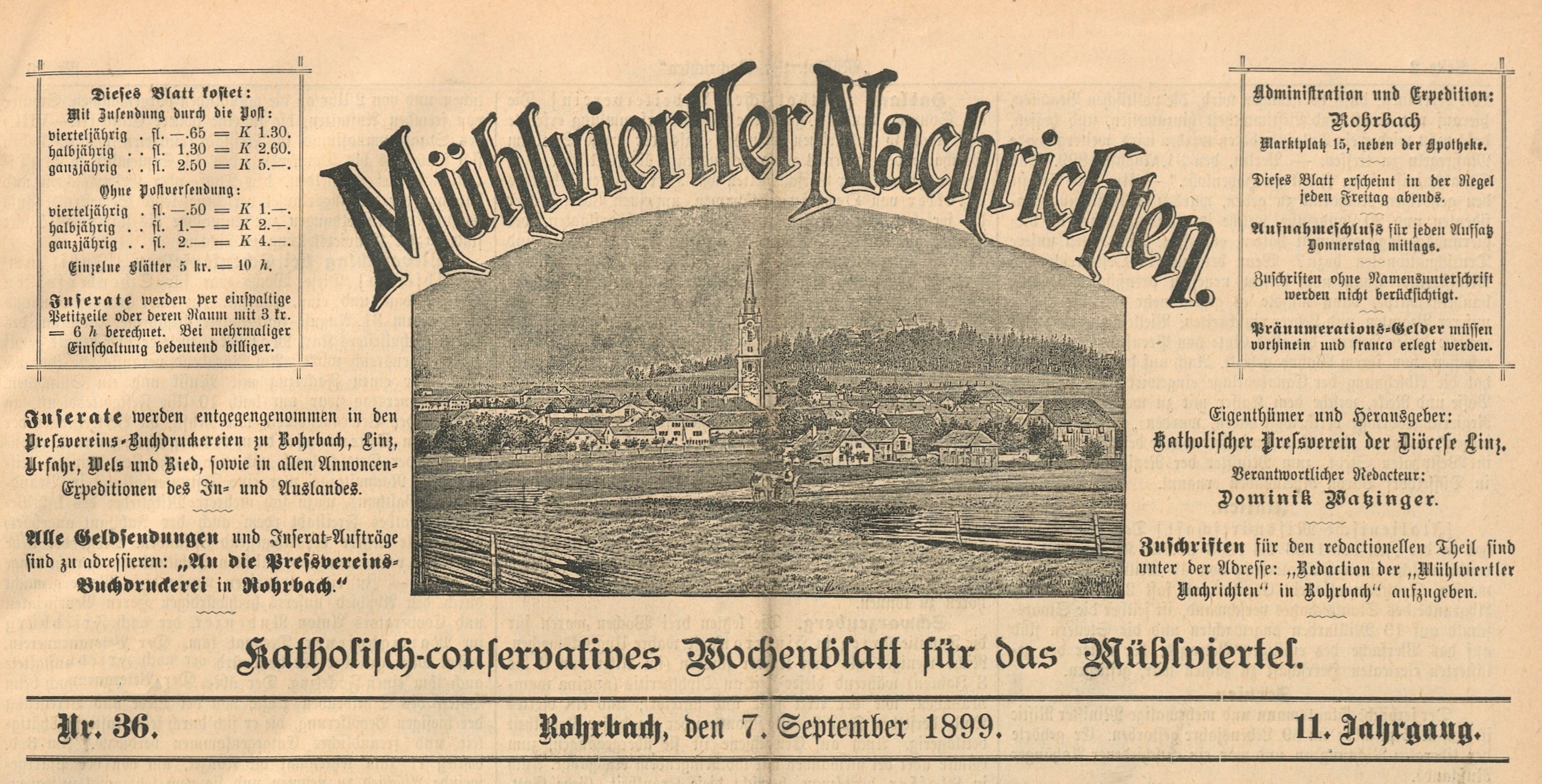 Header of the title page of the Upper Austrian weekly Mühlviertler Nachrichten. 11th year no. 36 of 7th September 1899. With the view of the town of Rohrbach in Oberösterreich.